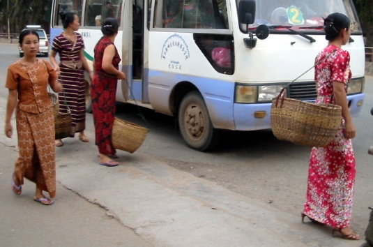 Yunnan women on the street (2004).